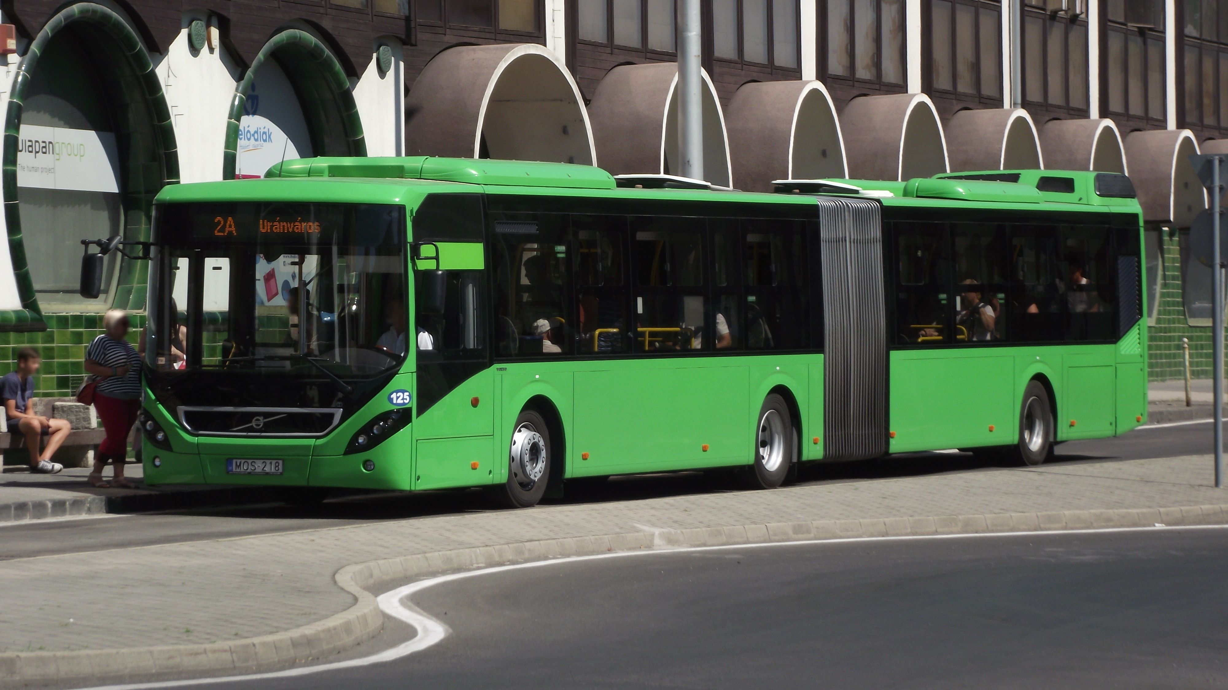 Volvo 7900A bus, bus line 2A, at Pécs, Zsolnay Statue (reg. MOS-218)